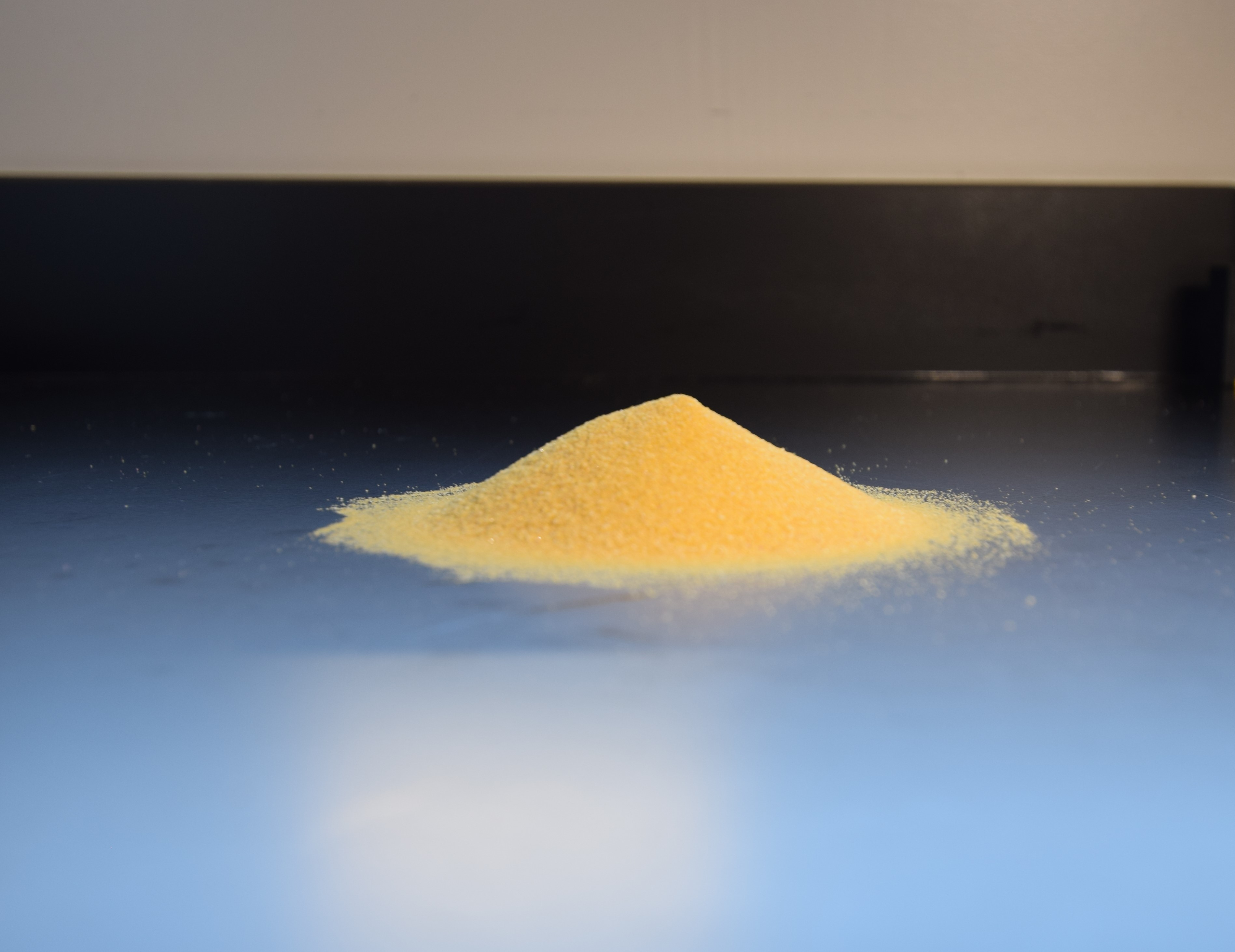 This is a photo of sand that was poured into a pile